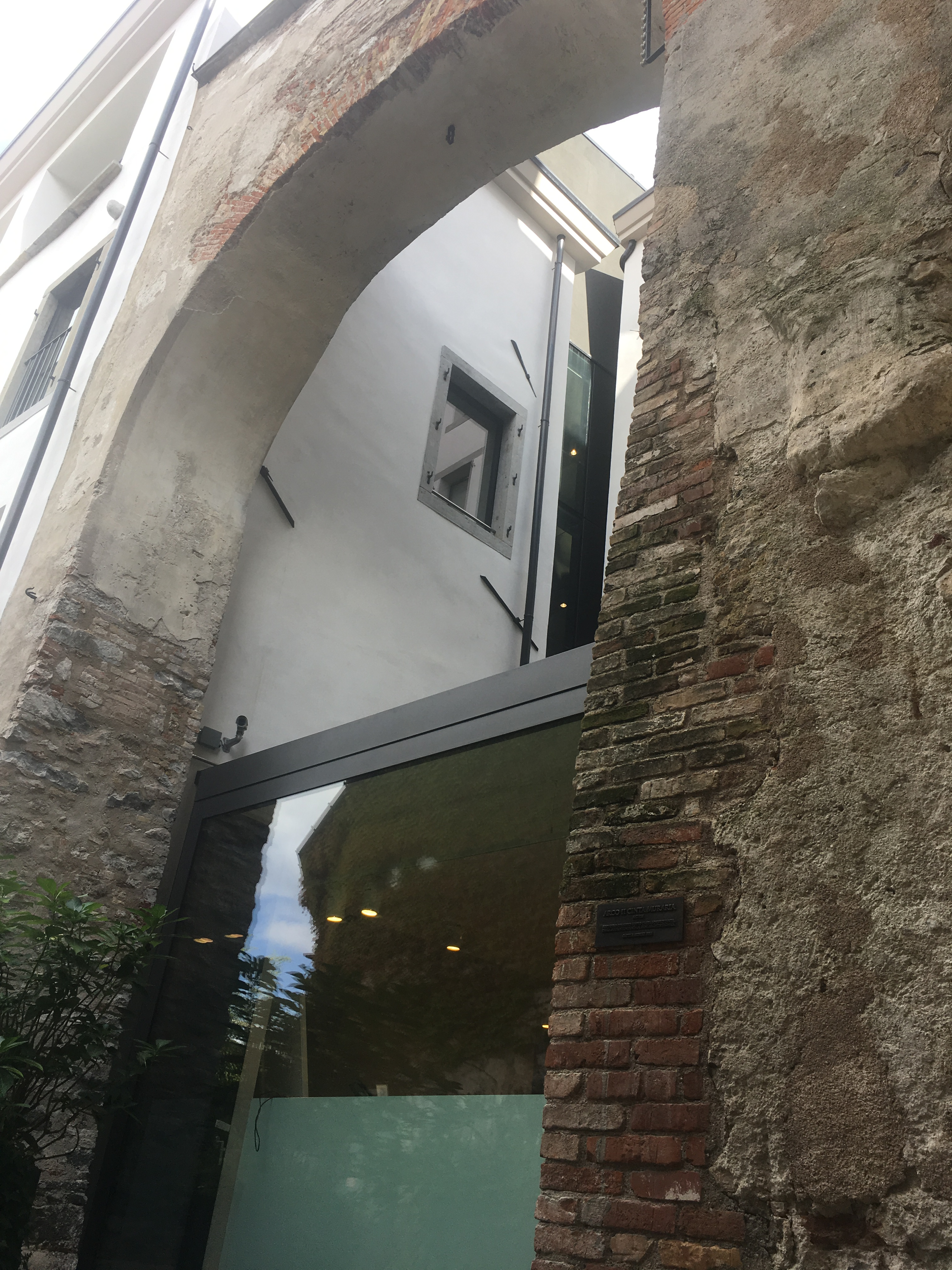 Porta Poscolle